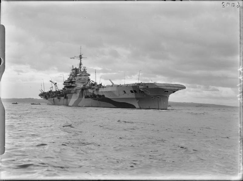 HMS Formidable At anchor.